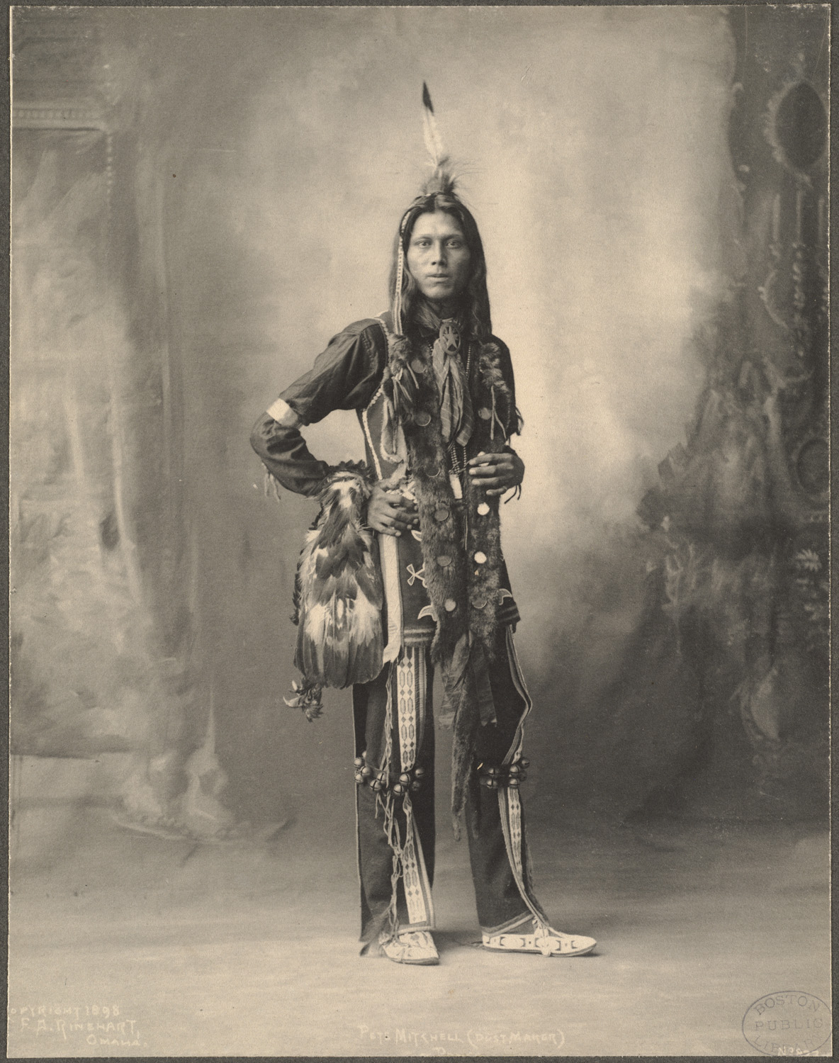 BPLDC no.: 09_06_000038 Rinehart no.: 823 Title: Pete Mitchell (Dust Maker), Ponca Photographer: Rinehart, F. A. (Frank A.) Copyright date: 1898 Extent: 1 photographic print : platinum Genre: Platinum prints; Portrait photographs Subject: Indians of North America; Ponca Indians; Trans-Mississippi and International Exposition (1898 : Omaha, Neb.) Notes: Rinehart identifier supplied by cataloger. BPL Department: Print Department